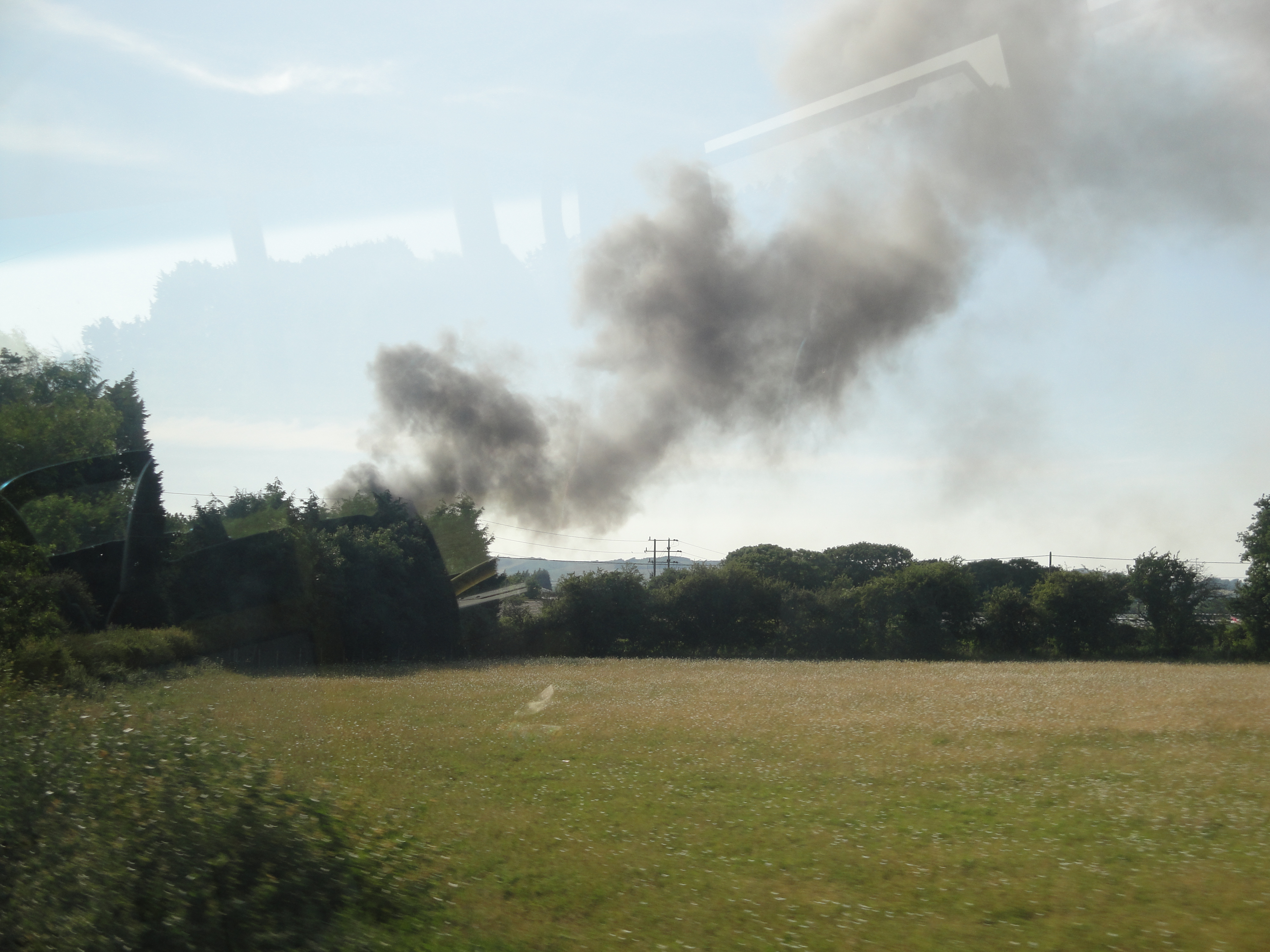 Smoke from a fire which occured at Amazon World Zoo, Isle of Wight, in June 2010.